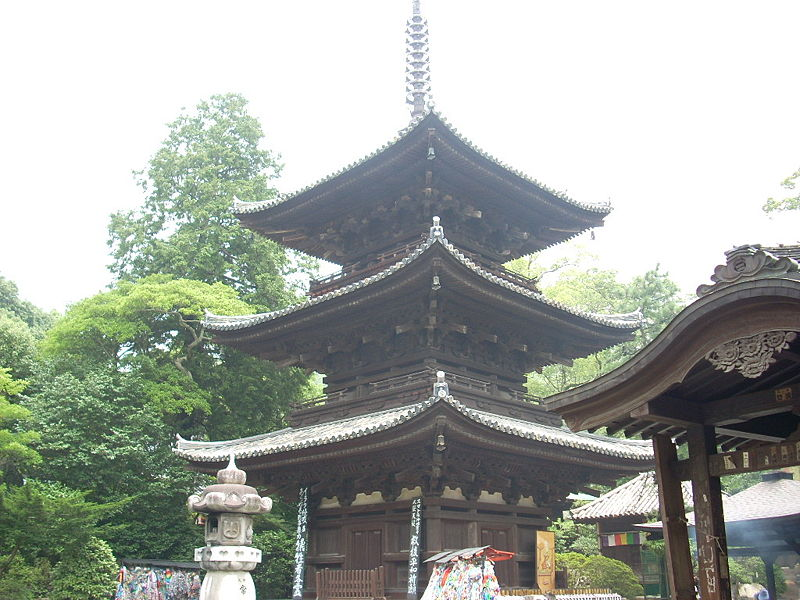 Three-storied pagoda(Japan's national important cultural property), Ishite-ji temple, Matsuyama City, Ehime, Japan